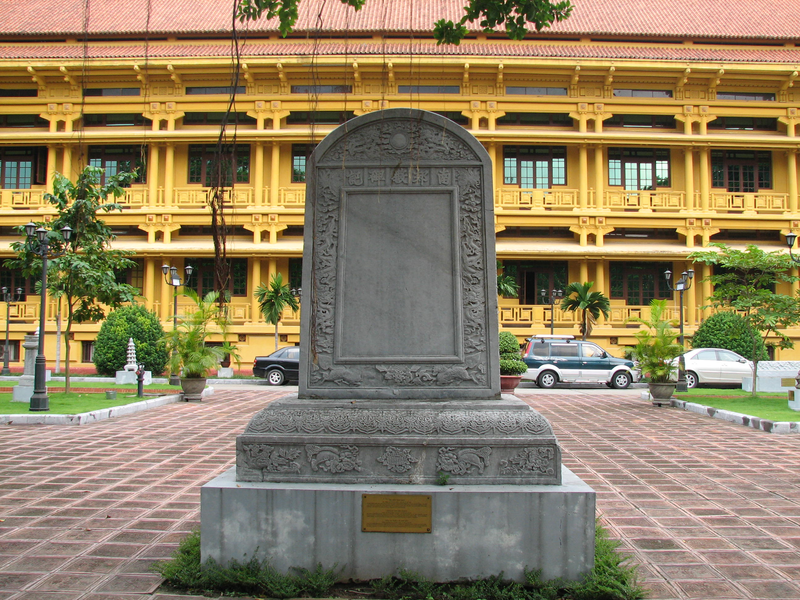 Nam Giao Stele, erected on the 4th year of Vinh Tri (1679) of Emperor Le Hy Tong with inscription about building the Esplanade of Sacrifice to the Heaven and Earth in Thang Long